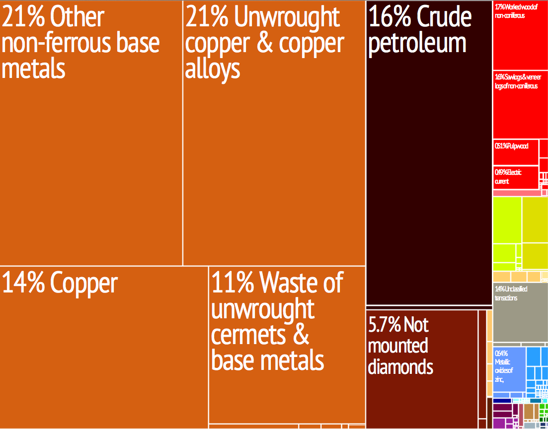 Export Trading Treemap. From MIT/Harvard Atlas of Economic Complexity